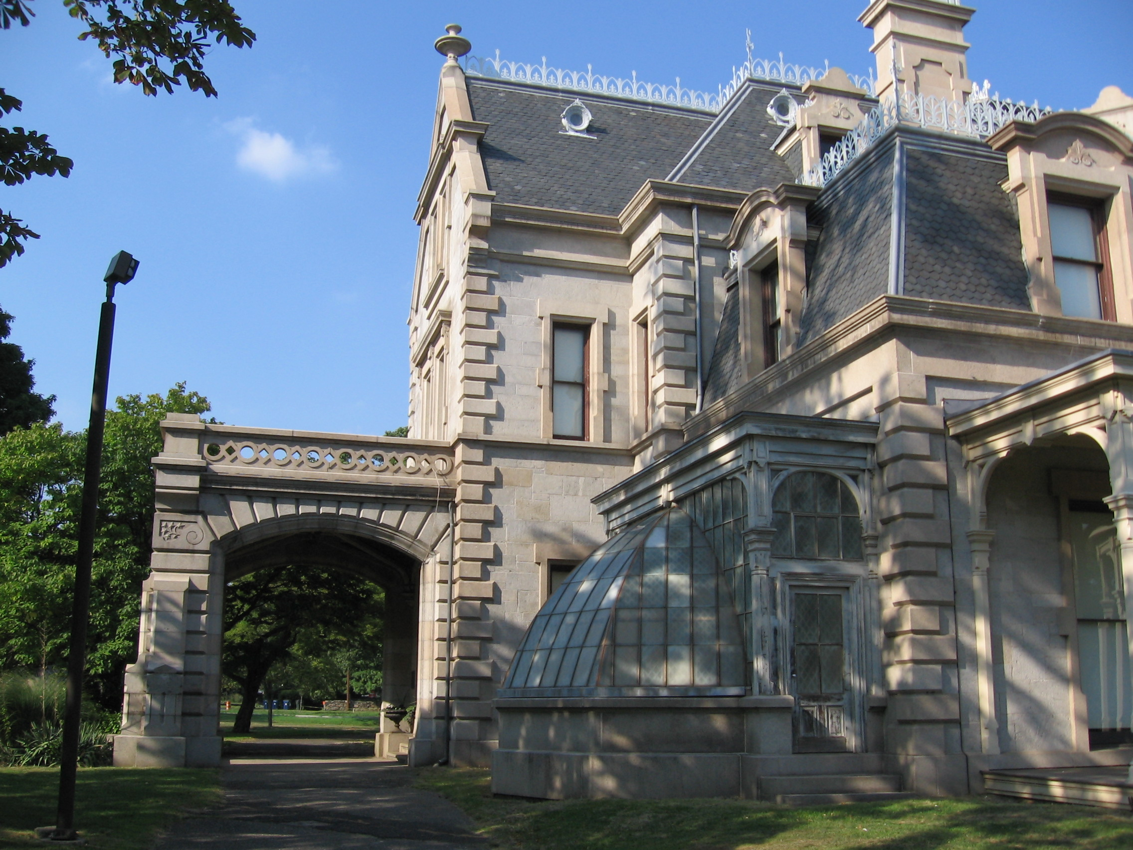 East side of the Lockwood-Mathews Mansion Museum, a Second Empire style pile in Norwalk, Connecticut, as seen from the south. The porte-cochere and greenhouse are shown.